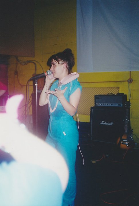 Kathleen Hanna and Le Tigre performing in the early 2000s at the Volcano Room in Indianapolis, Indiana.